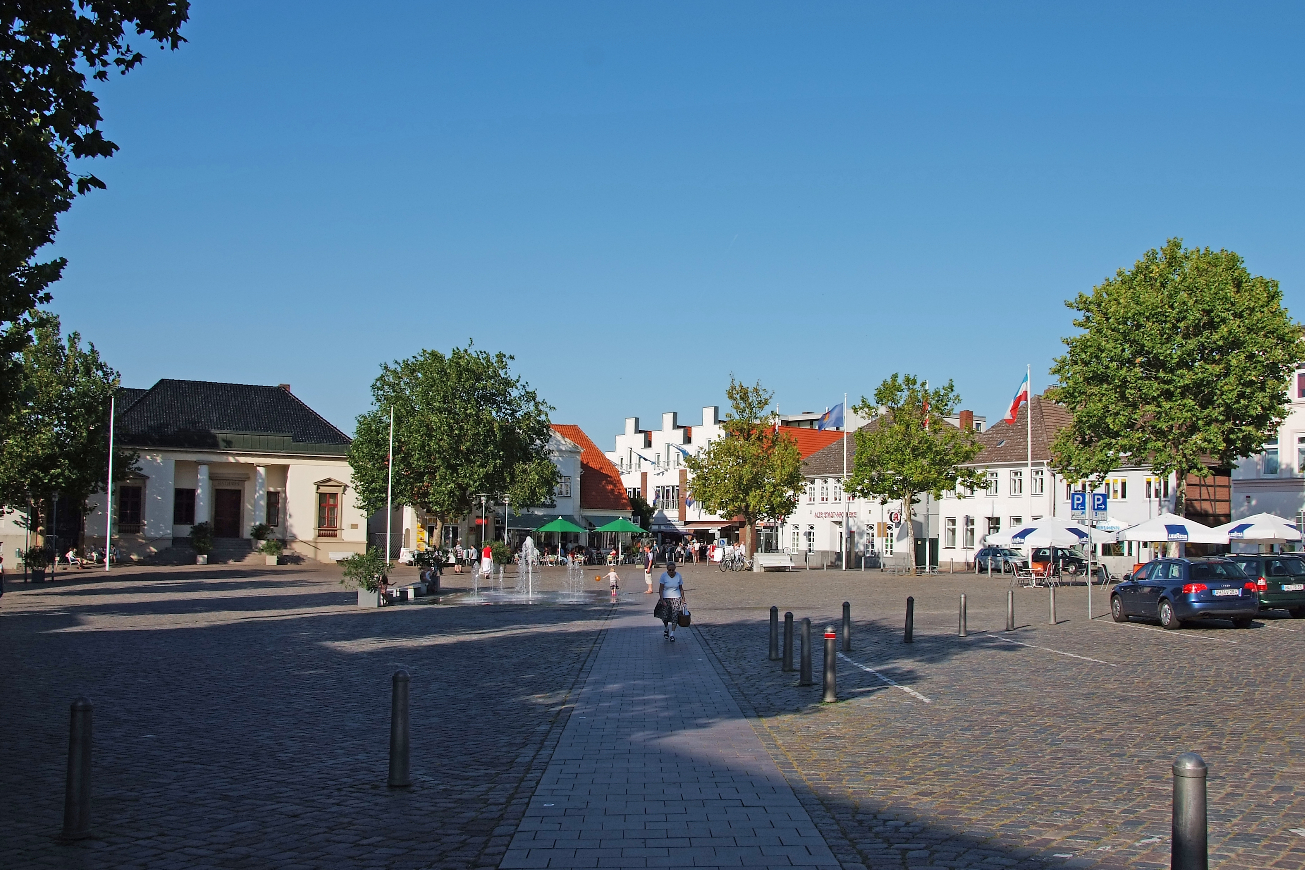 Market place Neustadt in Holstein 2009